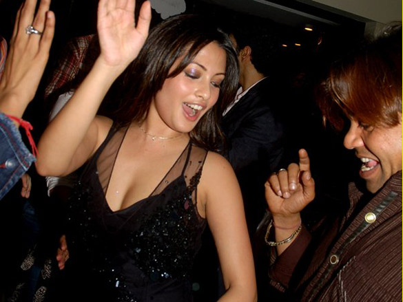 Riya Sen at Subhas Ghai Christmas Party 2011 (with Rajpal Yadav)